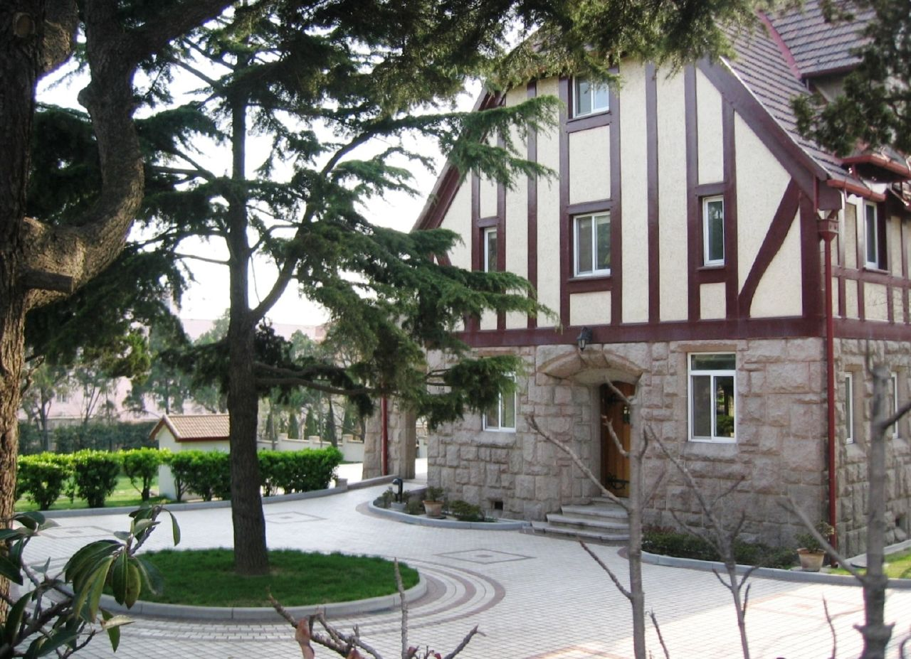 (Original caption: 喧闹都市里的一片净土). A house in the old section of Qingdao, Shandong, China.